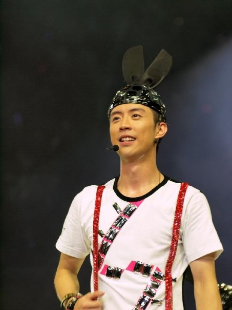 taken in lollipop concert in hong kong